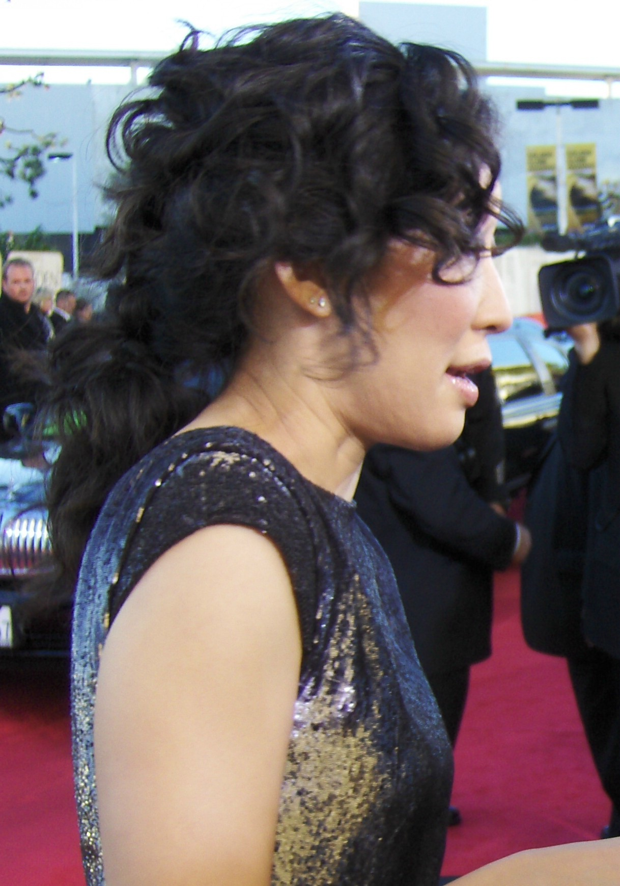 Sandra Oh at the 2007 Golden Globes image cropped from flickr photo by Joe Shlabotnik